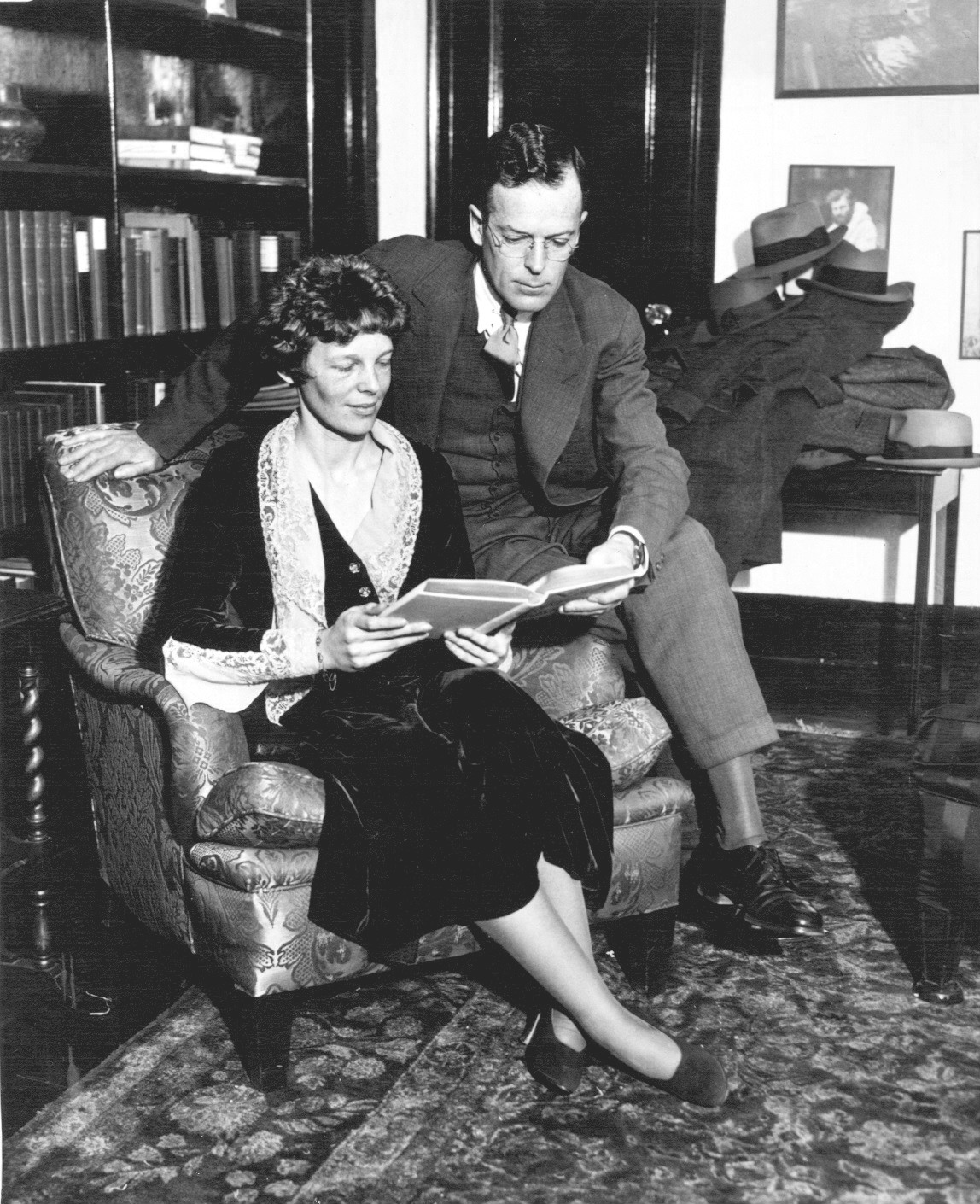 Photo of Amelia Earhart and her husband, George Putnam.